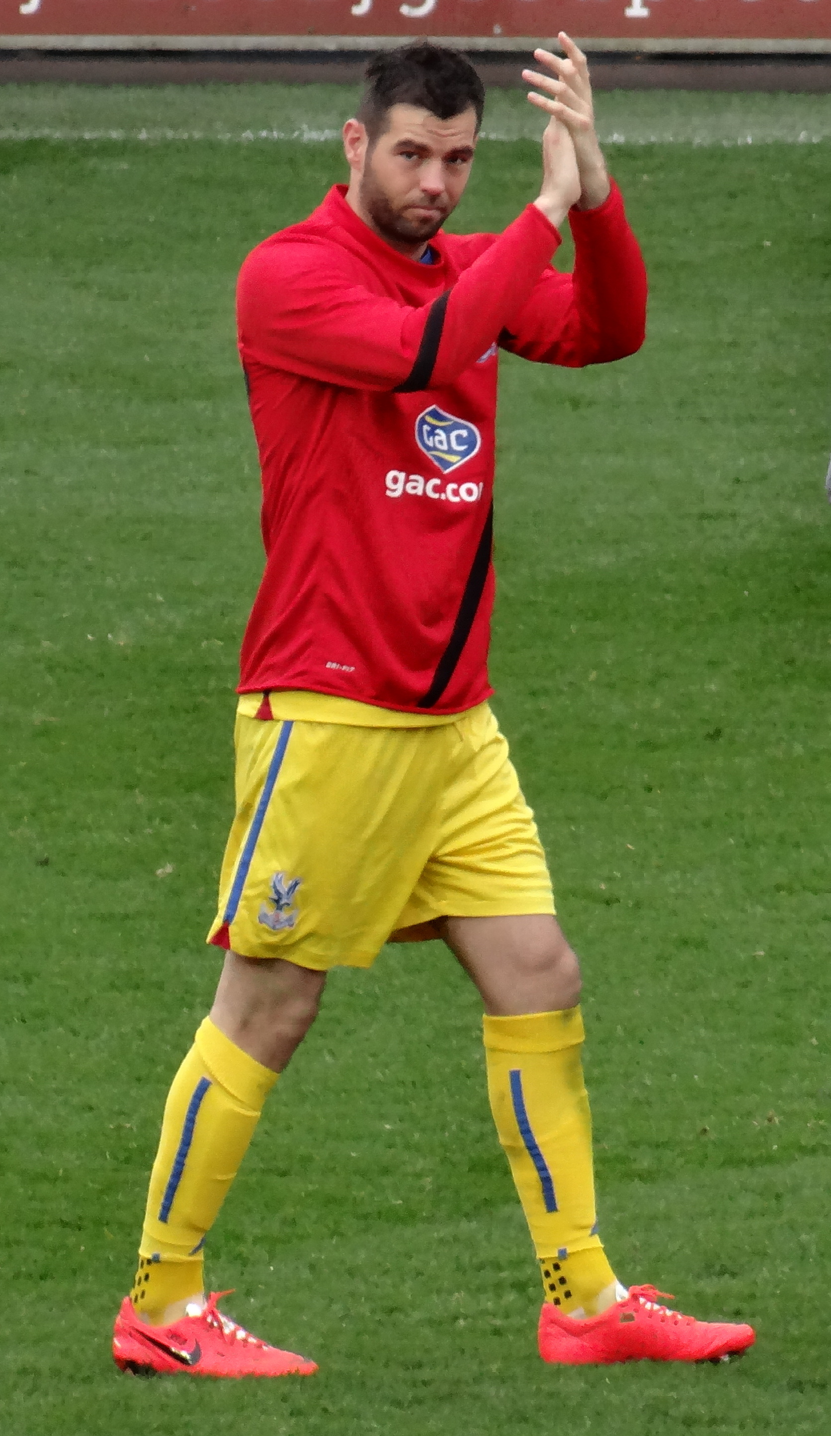 Joe Ledley as a Crystal Palace player in 2014.